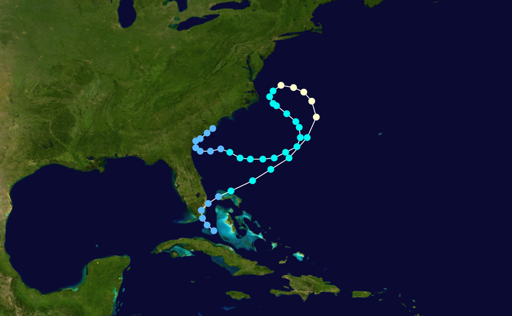 Hurricane Dawn (1972) track. Uses the color scheme from the Saffir-Simpson Hurricane Scale.